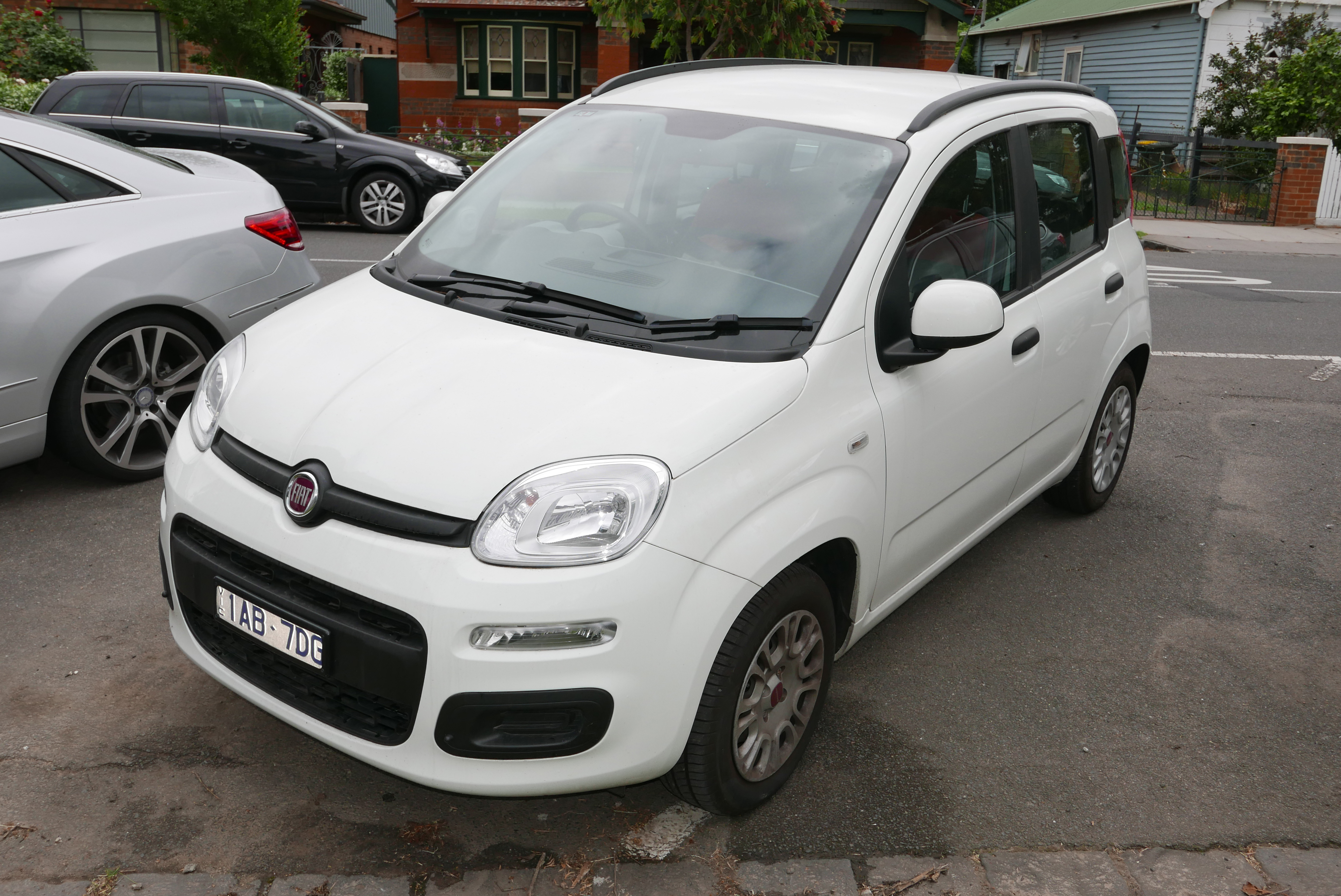 2013 Fiat Panda Easy hatchback. Photographed in Fitzroy North, Victoria, Australia. Vehicle registration enquiry results Jurisdiction Victoria Registration 1AB7DG Chassis code ZFA31200003204441 Engine code 312A20000167611 Compliance date 2013-10 Year of manufacture 2013